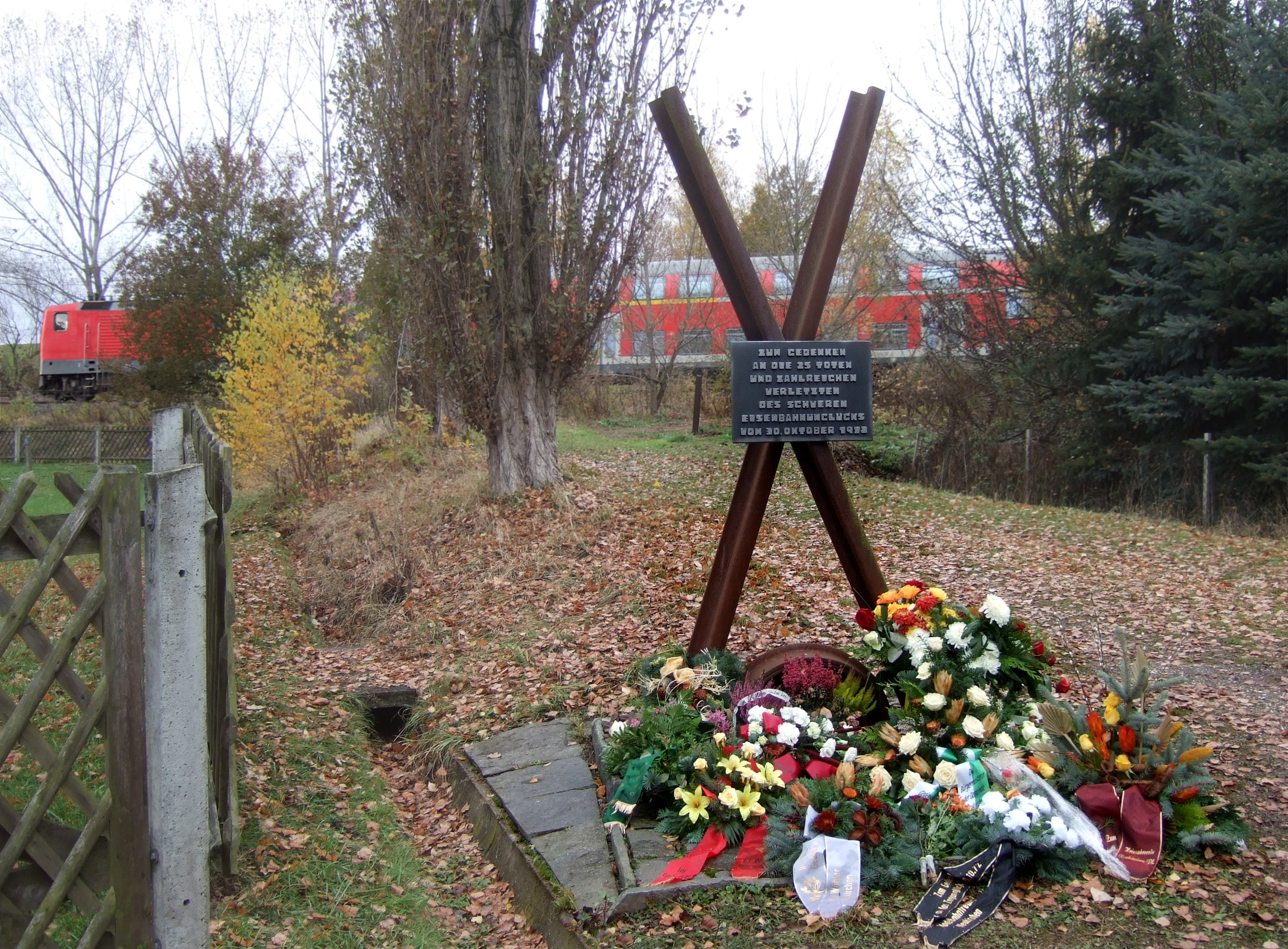 Monument for the serious railway accident near the railway station Schweinsburg-Culten.